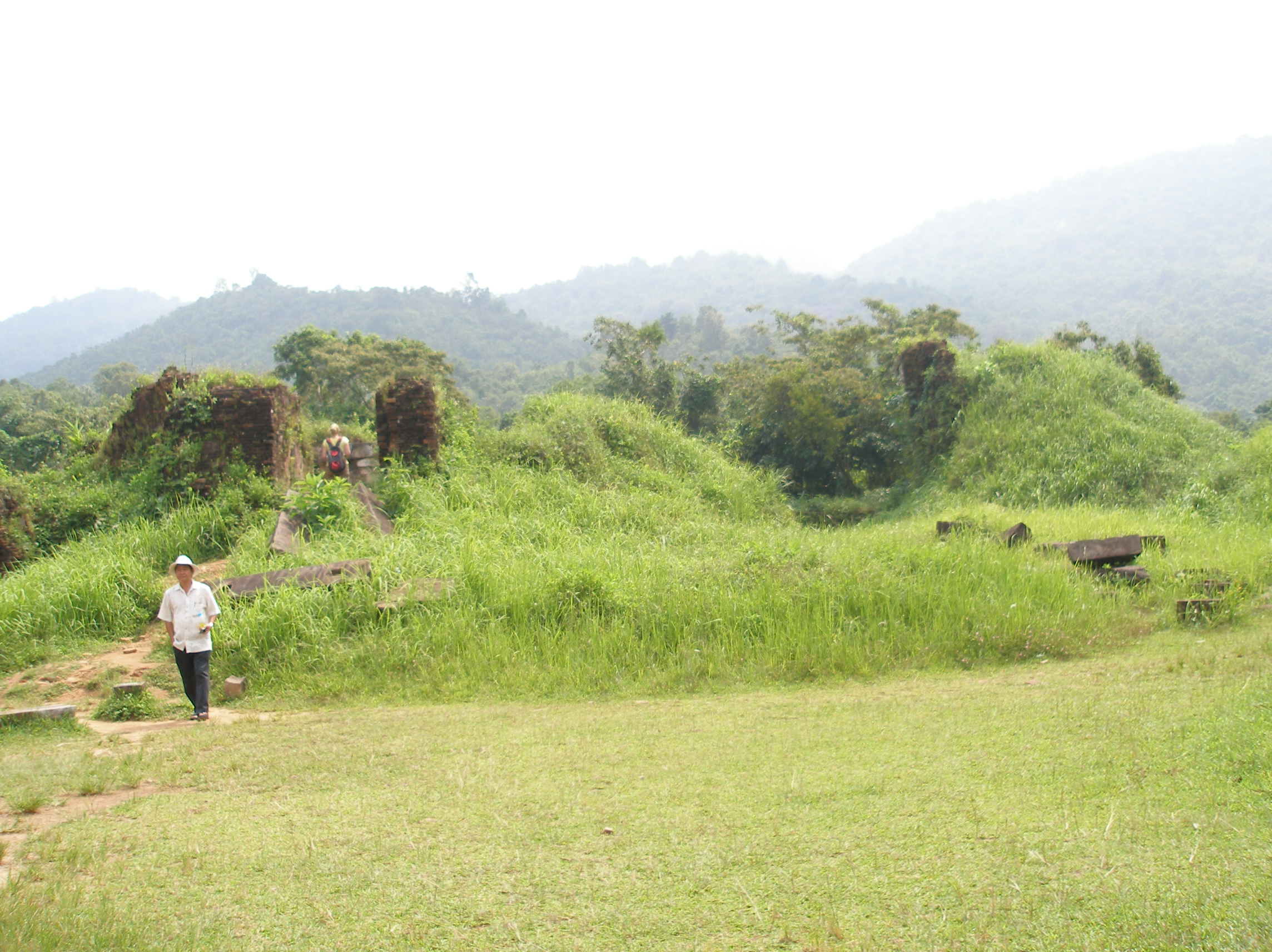 Cham temple A1 in My Son destroyed by bombing during american war